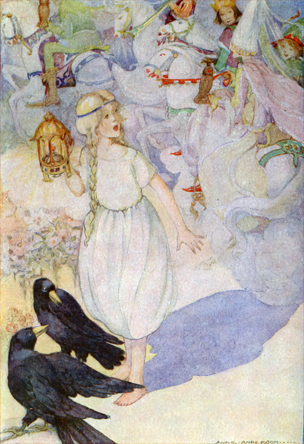 "Gerda and the Ravens". Gerda told the raven her troubles .